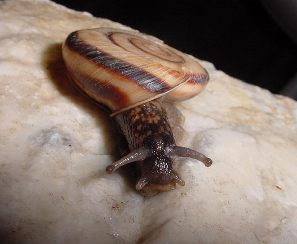 Euhadra murayamai from Myojo-san (in cave)